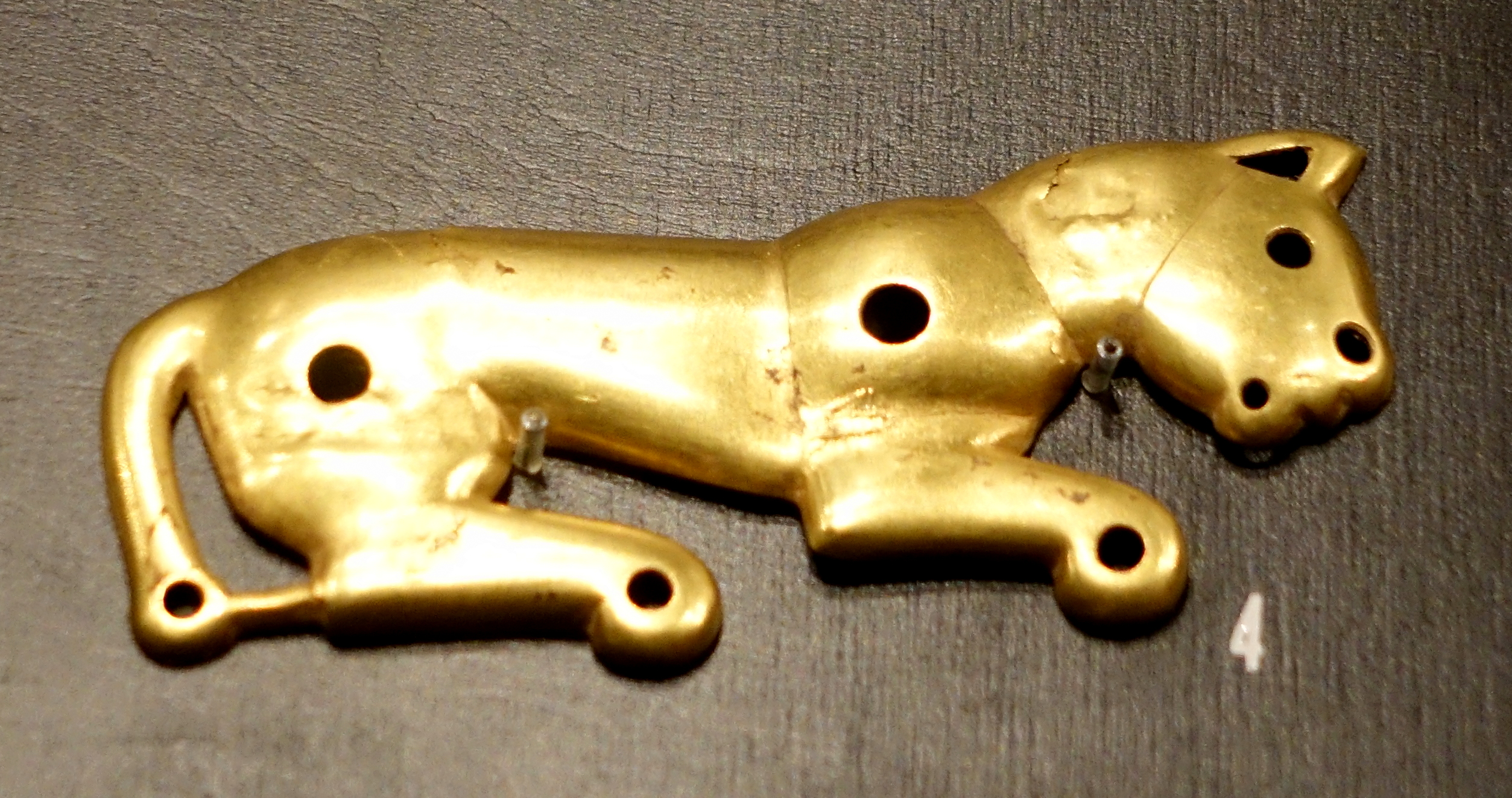 Exhibit in the Östasiatiska museet, Stockholm, Sweden. This artwork is old enough so that it is in the public domain. This is a photo of an artwork at the Museum of Far Eastern Antiquities in Sweden with the identifier: HM-2190